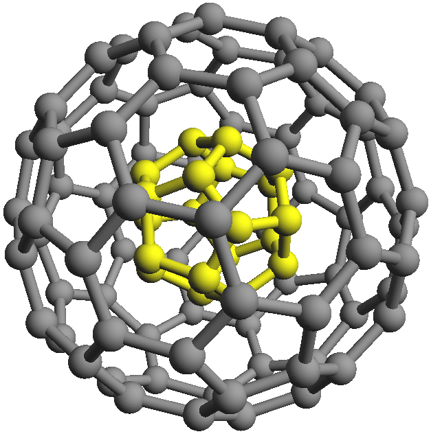 Carbon onion ("buckyonion") C20@C80, optimized with Arguslab. The C20 fullerene is shown in yellow, within the gray C80 fullerene. Oignon de carbone C20@C80, optimisé avec Arguslab. Le fullerène C20 est en jaune, à l'intérieur du fullerène en gris C80.